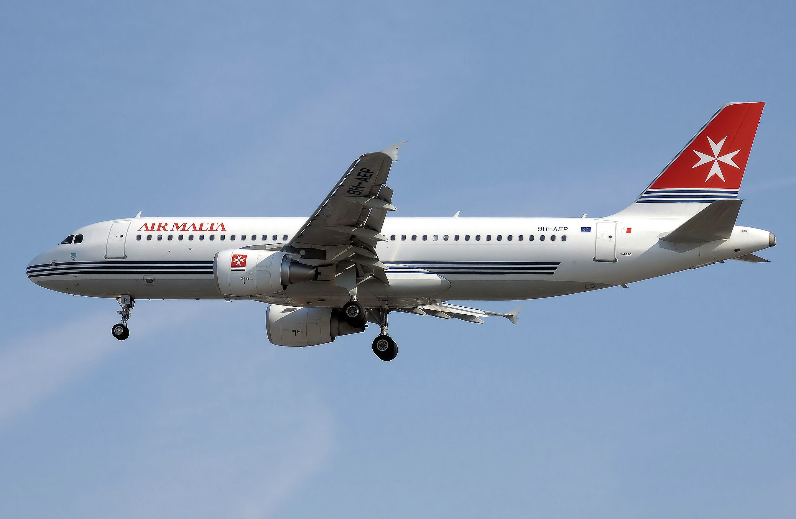 Air Malta Airbus A320-200 (9H-AEP) landing at London Heathrow Airport.